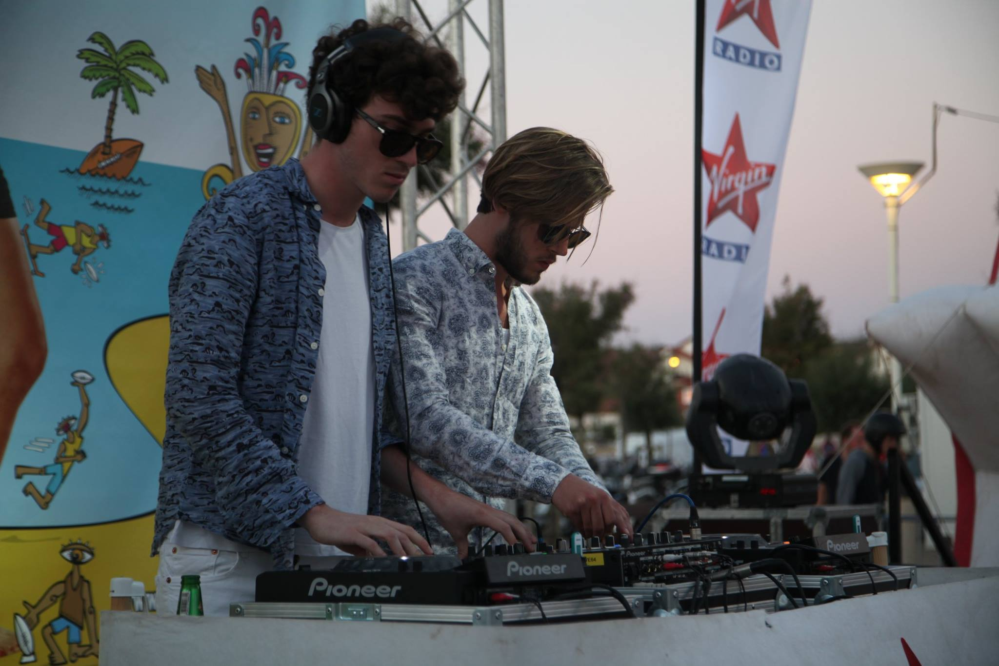 Ofenbach playing live at Anglet Beach Rugby Festival 2016; Virgin Radio